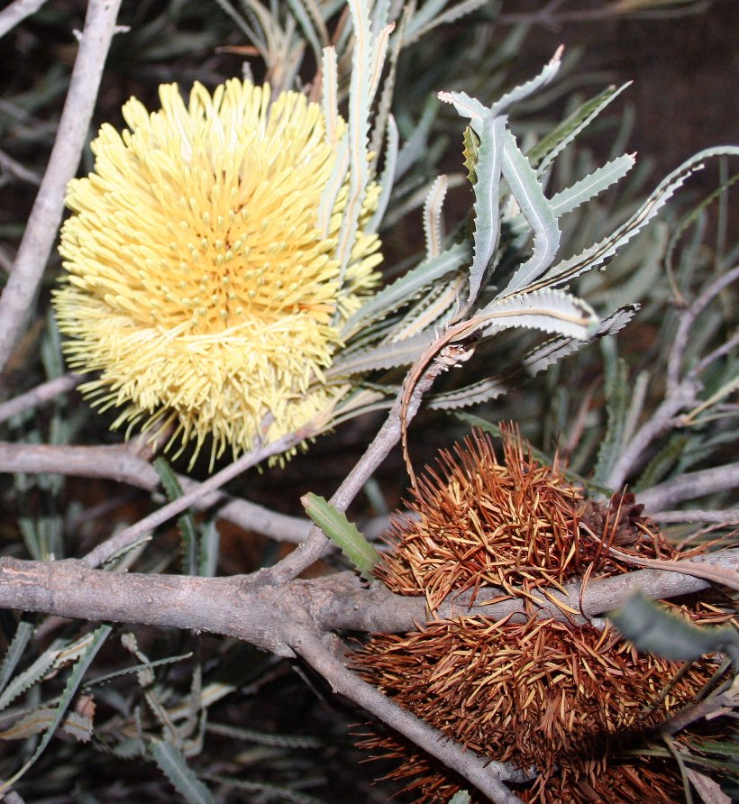 Banksia lindleyana blooms near Murchison River April 2006 Photo: Cas Liber